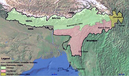 A political/geographical representation of the eastern Himalayas credits of image ICIMOD website:- (P.S:- proper permissions were asked from the quthors before the upload)